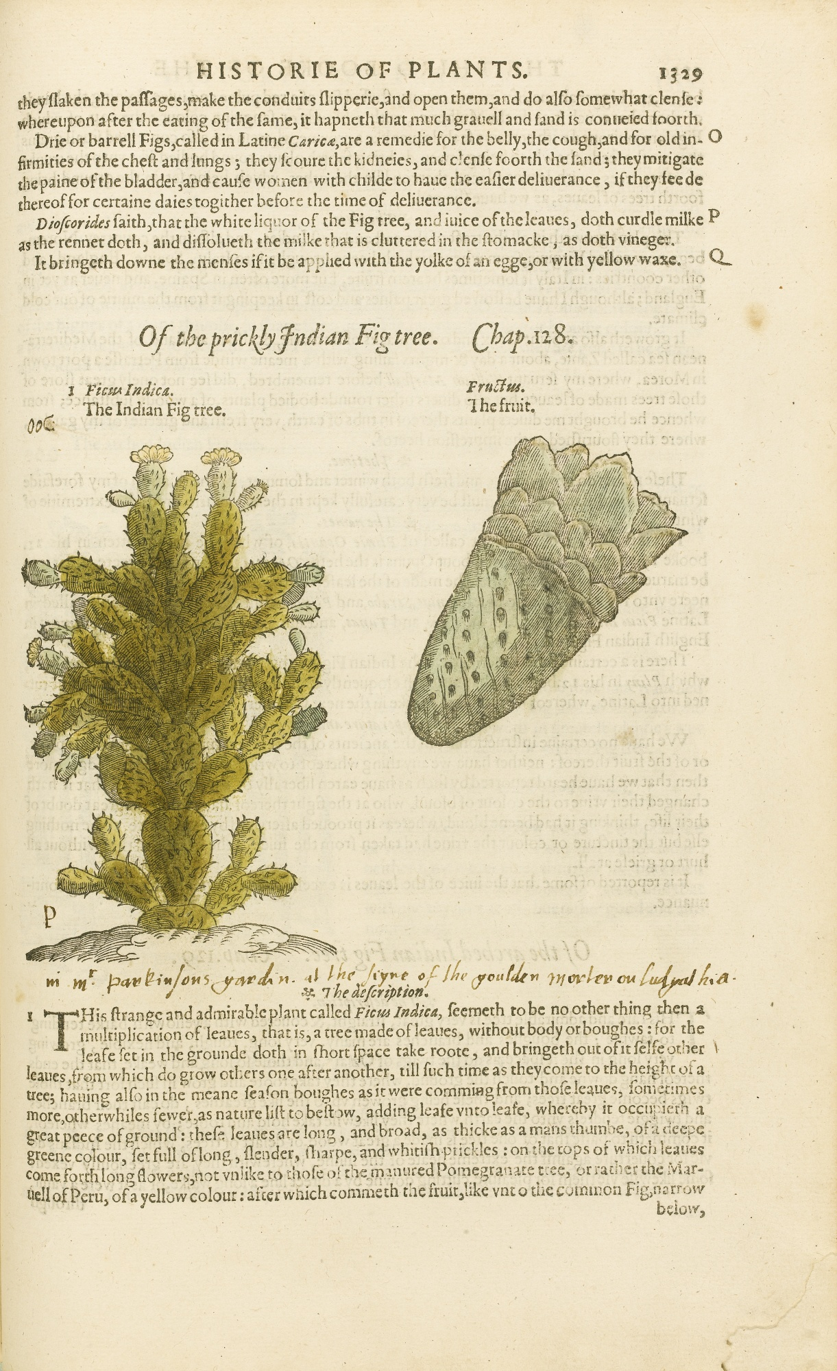 Page 1329 of Johan Gerard's Generall Historie of Plantes, describing Ficus indica. The work is dated 1597.